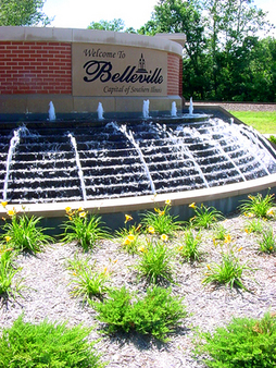 Images taken by me. Downtown Belleville Illinois. Category:Images of Belleville, Illinois